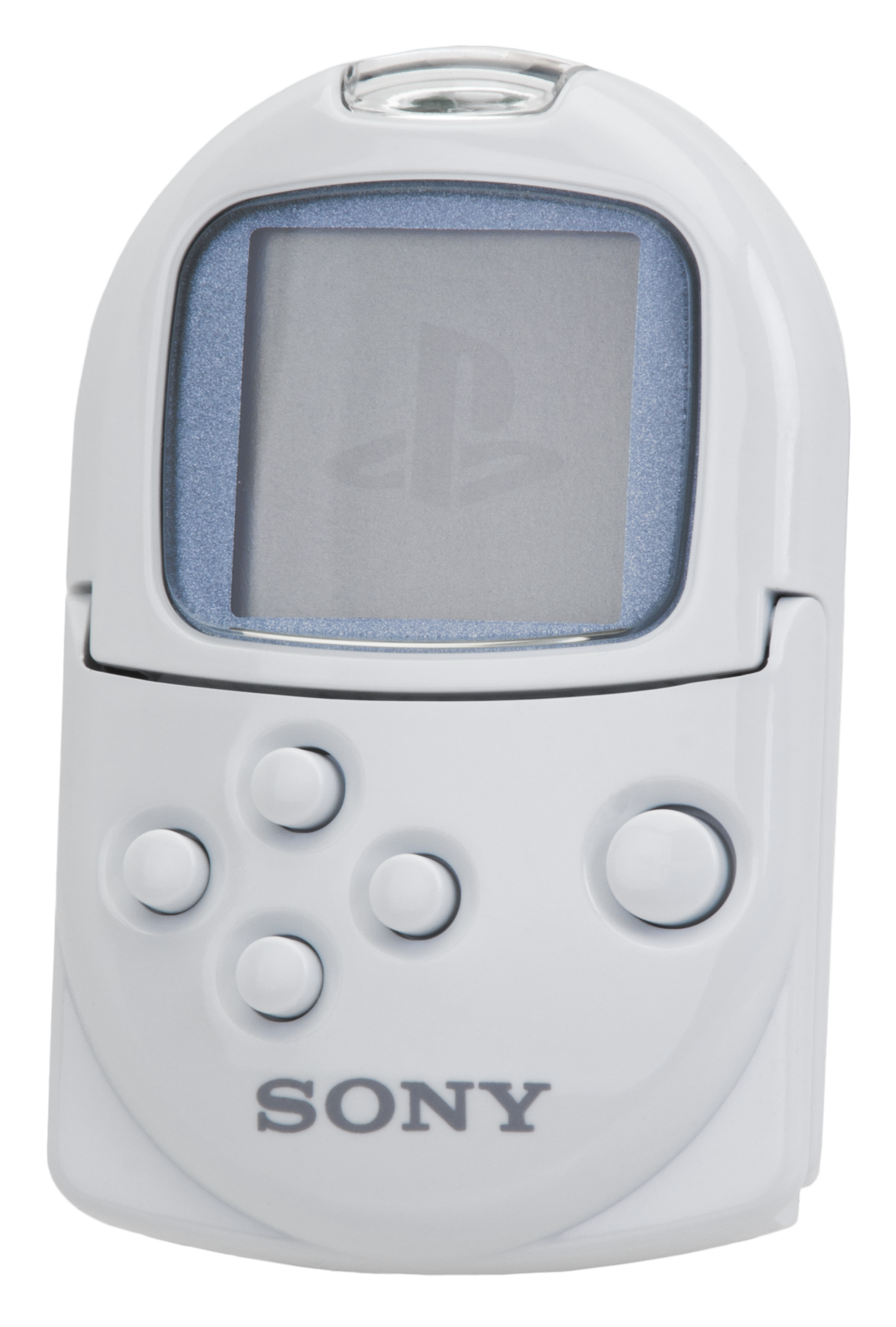 The PocketStation, a Sony PlayStation memory card and sorta PDA that was only released in Japan.